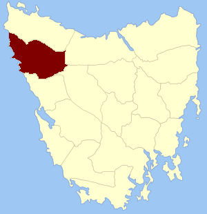 Location of the land district (formerly county) within Tasmania.